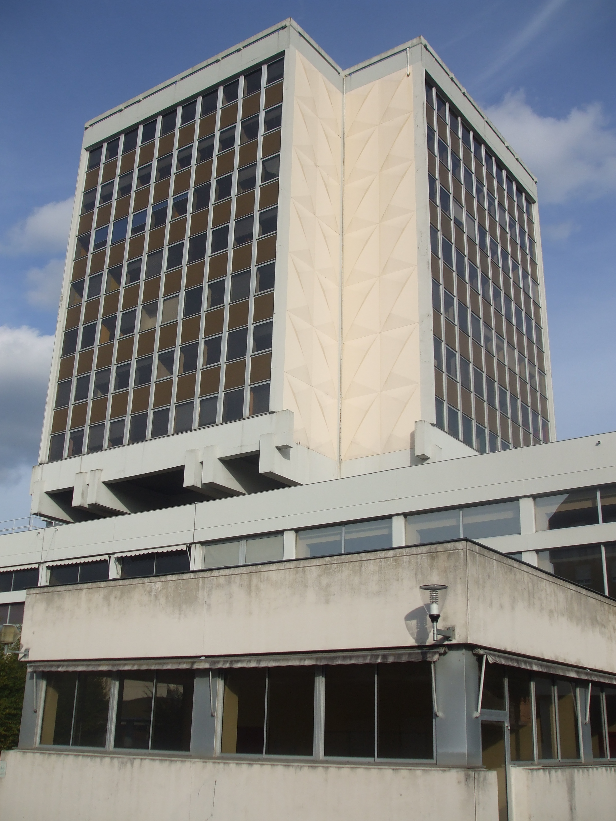 Chamber of commerce of Brive la Gaillaede, France